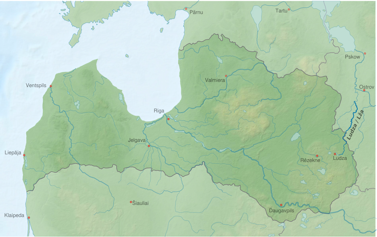 Map of river Ludza in Latvia and Russia based on relief-location maps by users: NNW, Виктор В, Alexrk2, Chumwa, Karlis